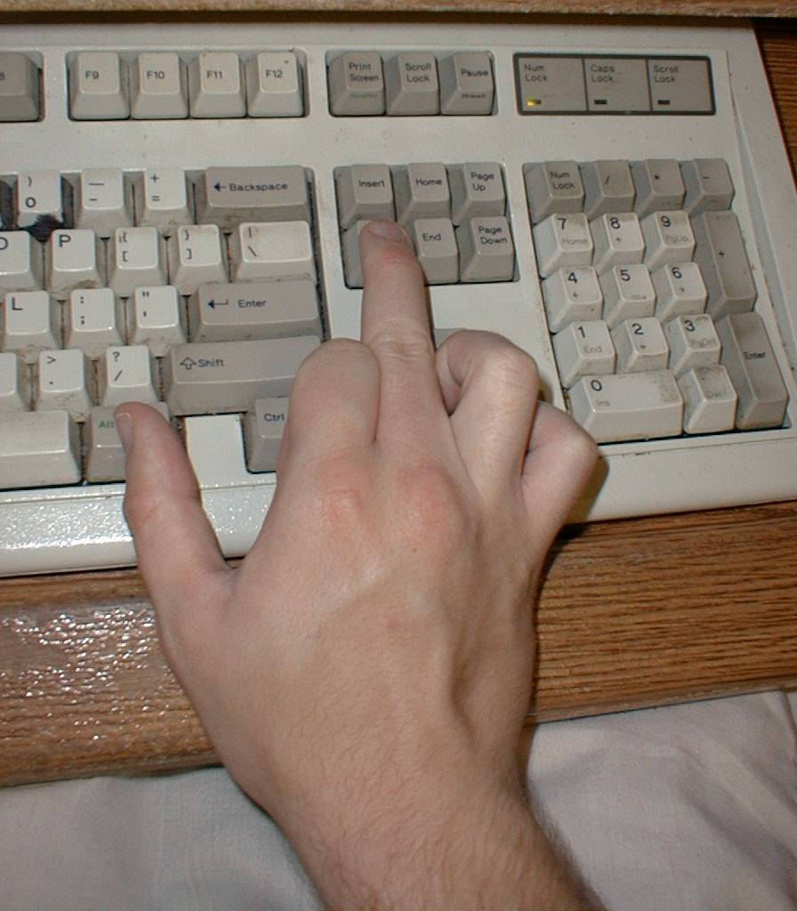 Photo of author's right hand over an IBM Model M keyboard, pressing Control-Alt-Delete with one hand, as if to give the finger